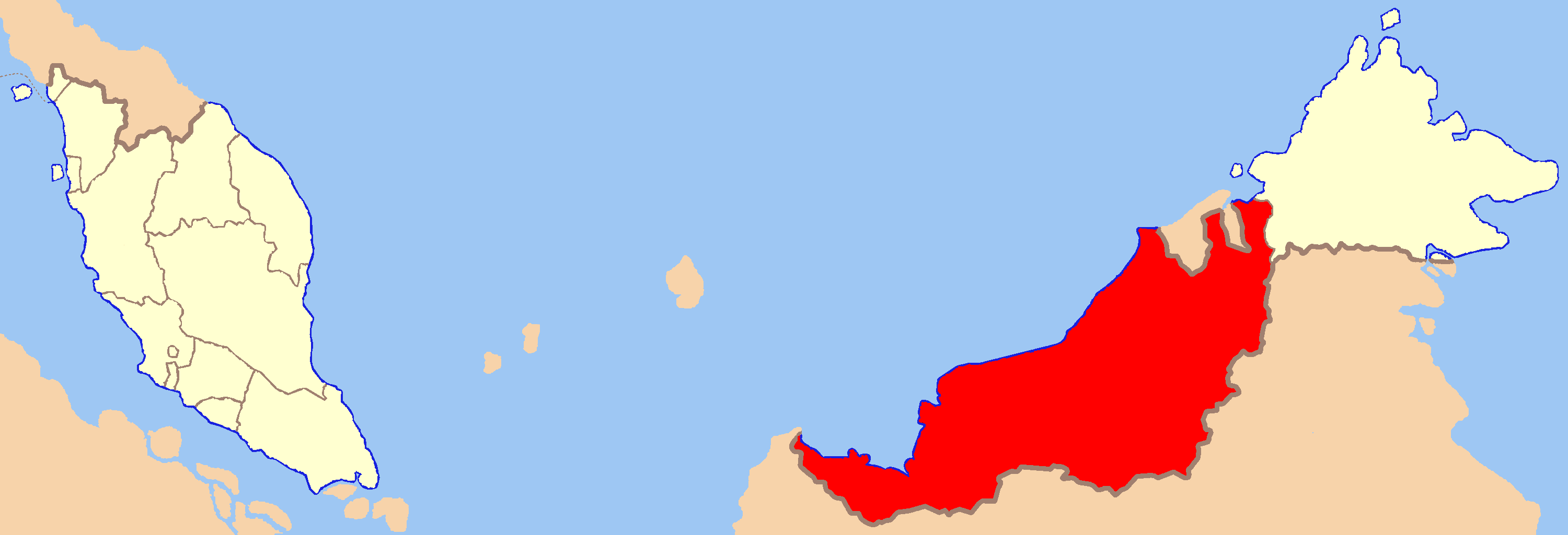 Map of Malaysia with Sarawak highlighted